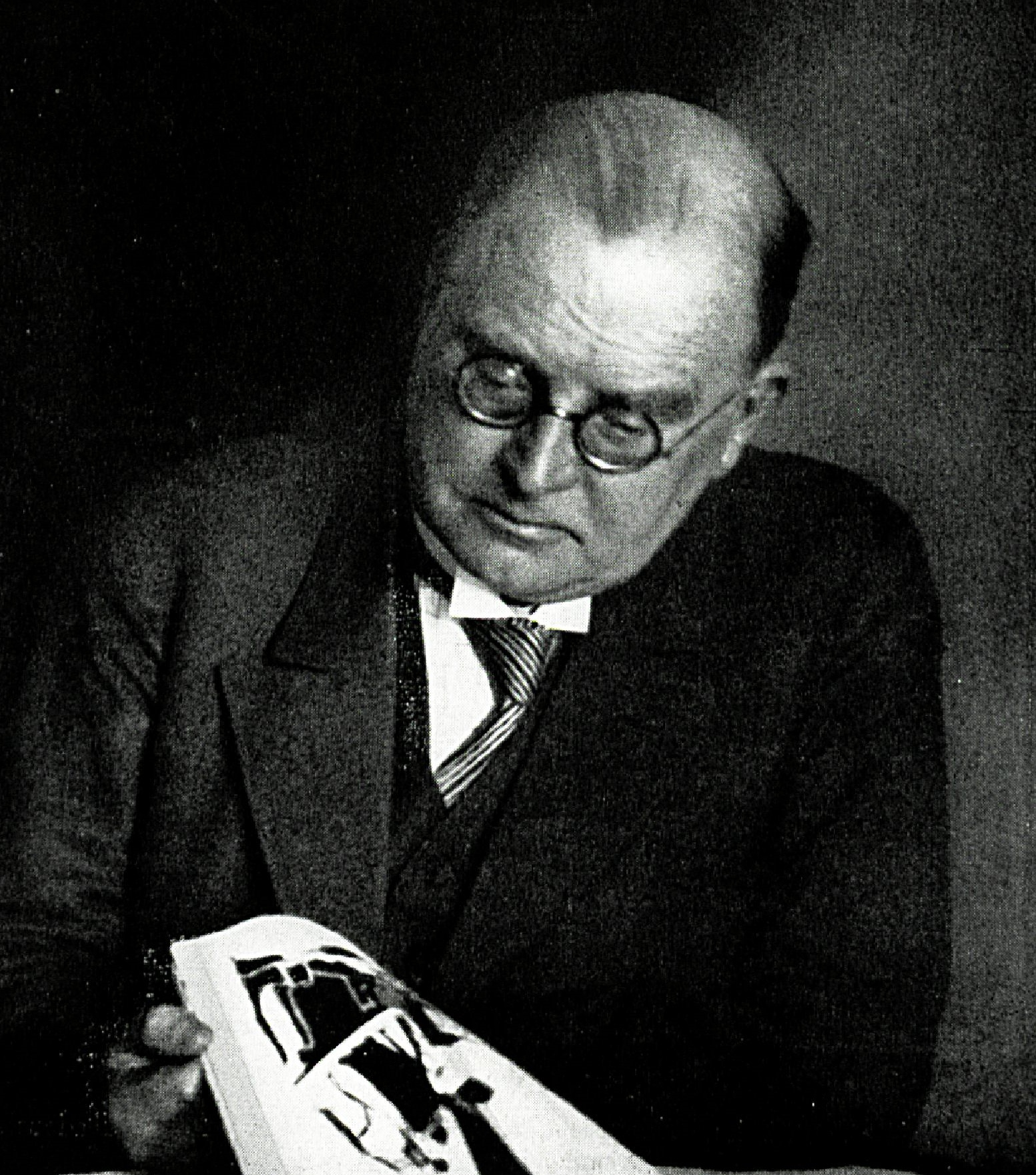 Paul Brockhaus